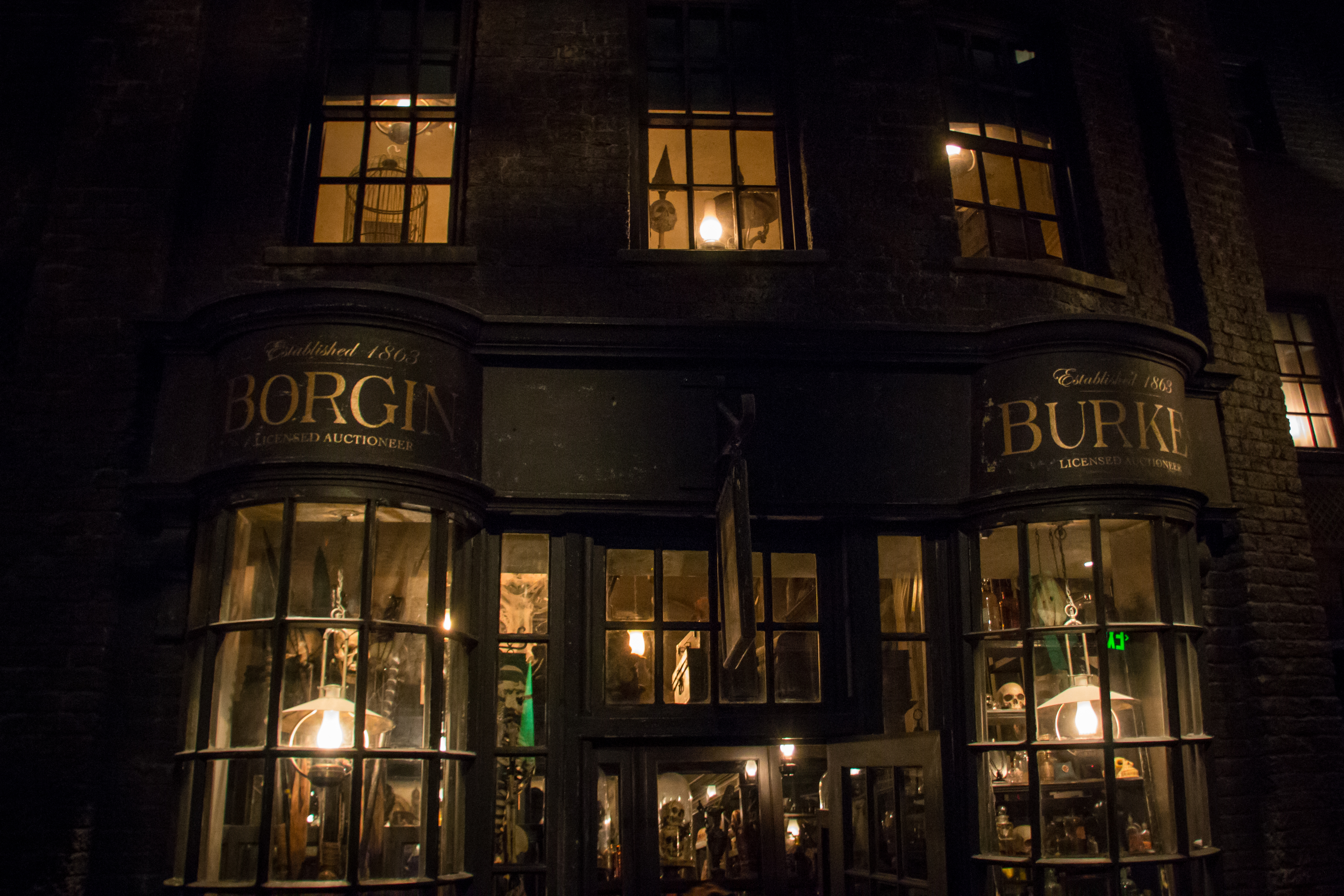 Borgin & Burkes on Knockturn Alley in Universal Studios Florida.